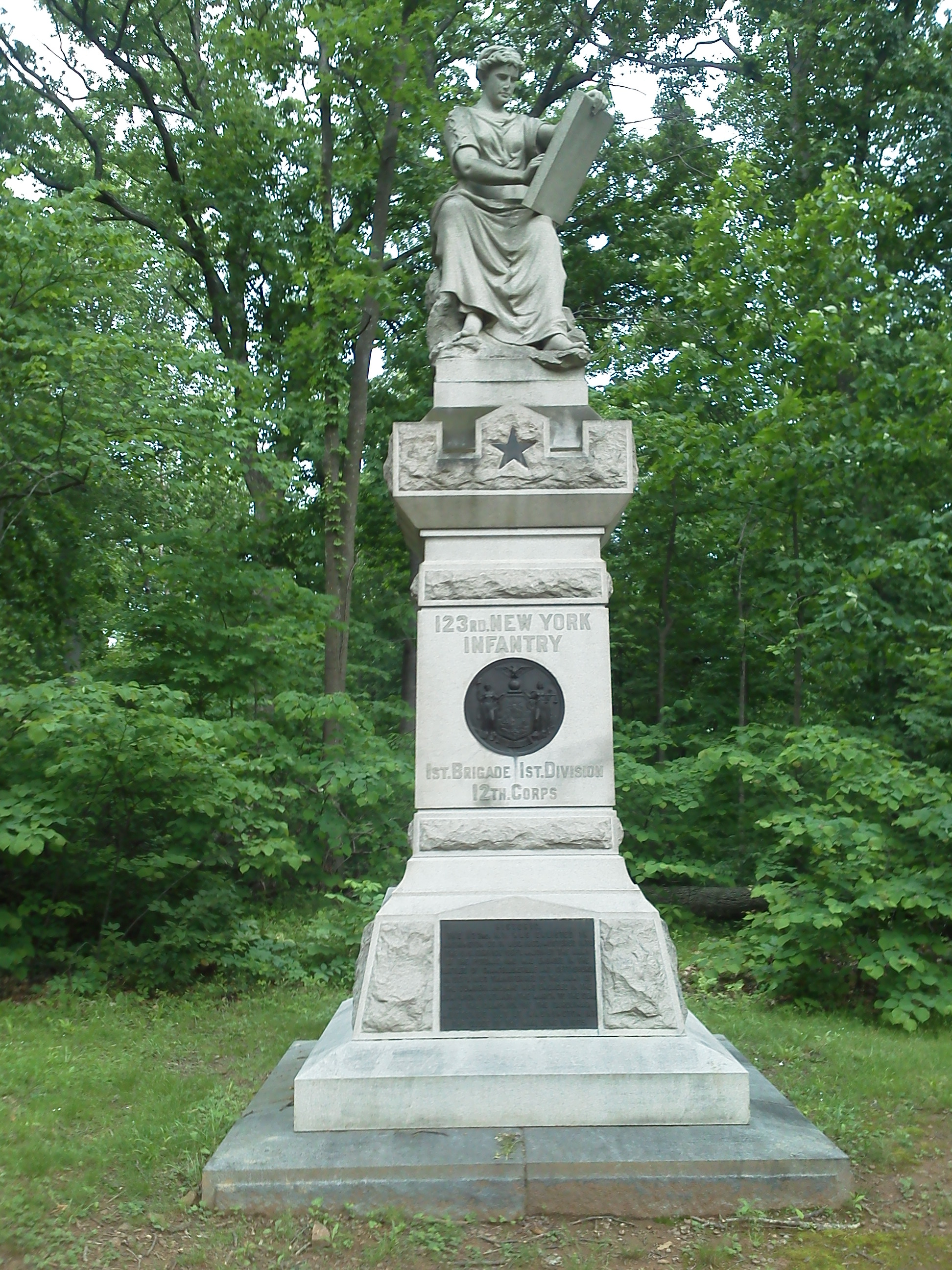 The 123rd New York Volunteer Infantry Regiment monument found at Gettysburg Battlefield